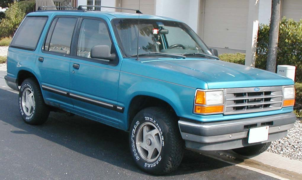 1991-1994 Ford Explorer photographed in USA.